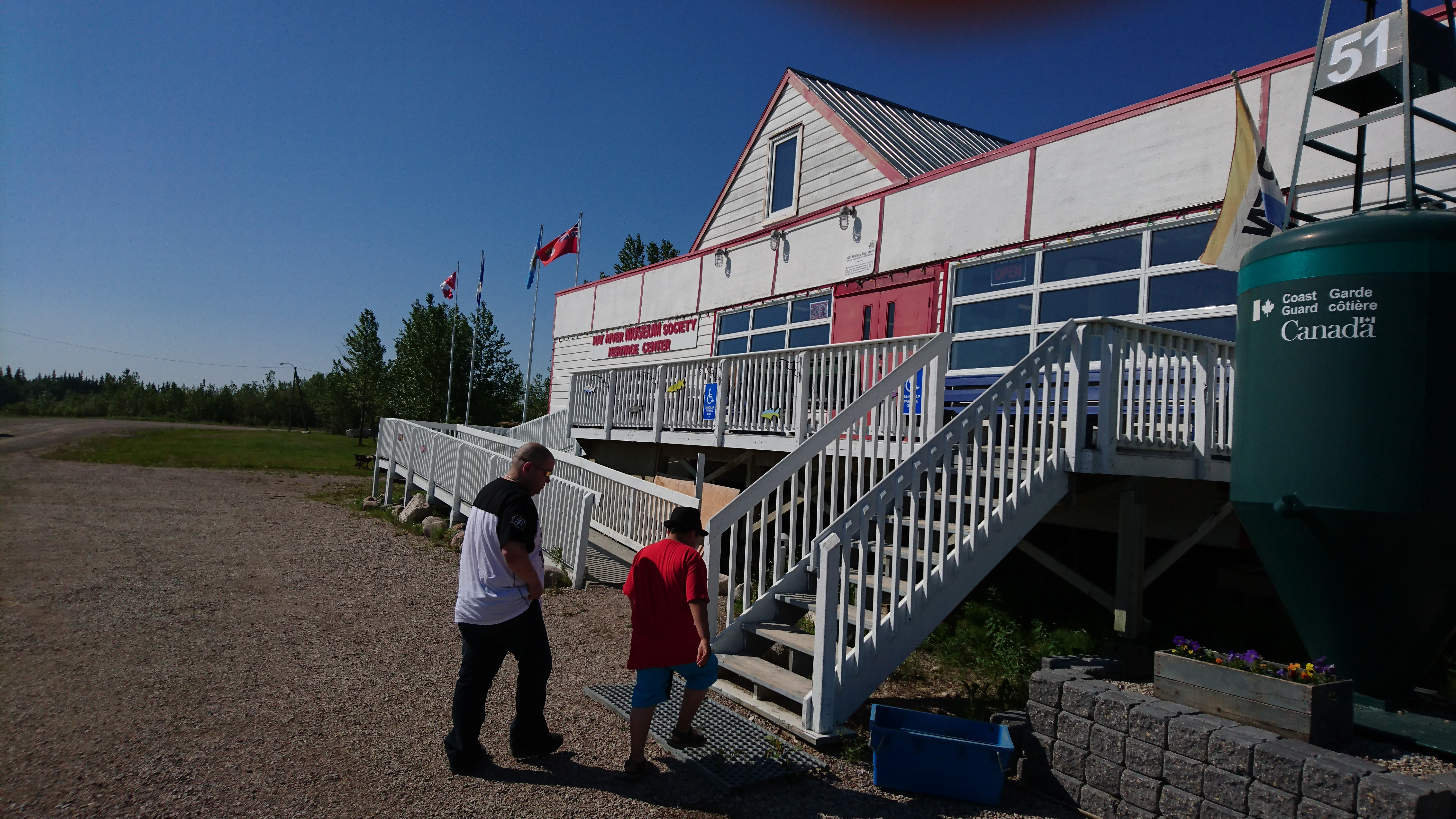 Hay River Museum Heritage Center